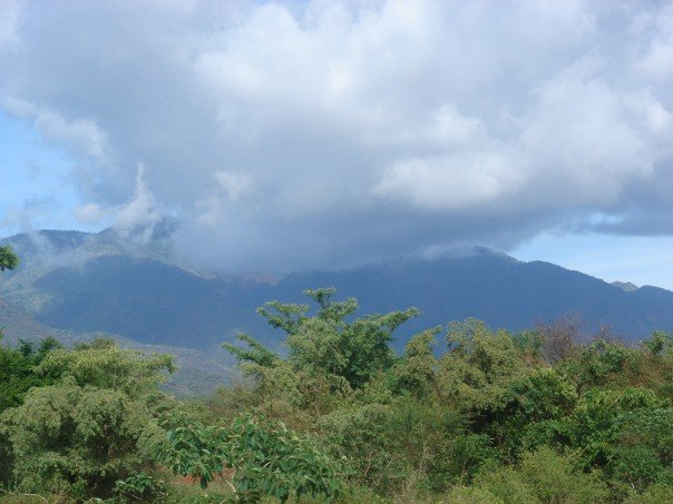 The picture shows Mt. Lotukei, of the Didinga people of South Sudan. The land is quite magnificent, rich heights and plateaus.